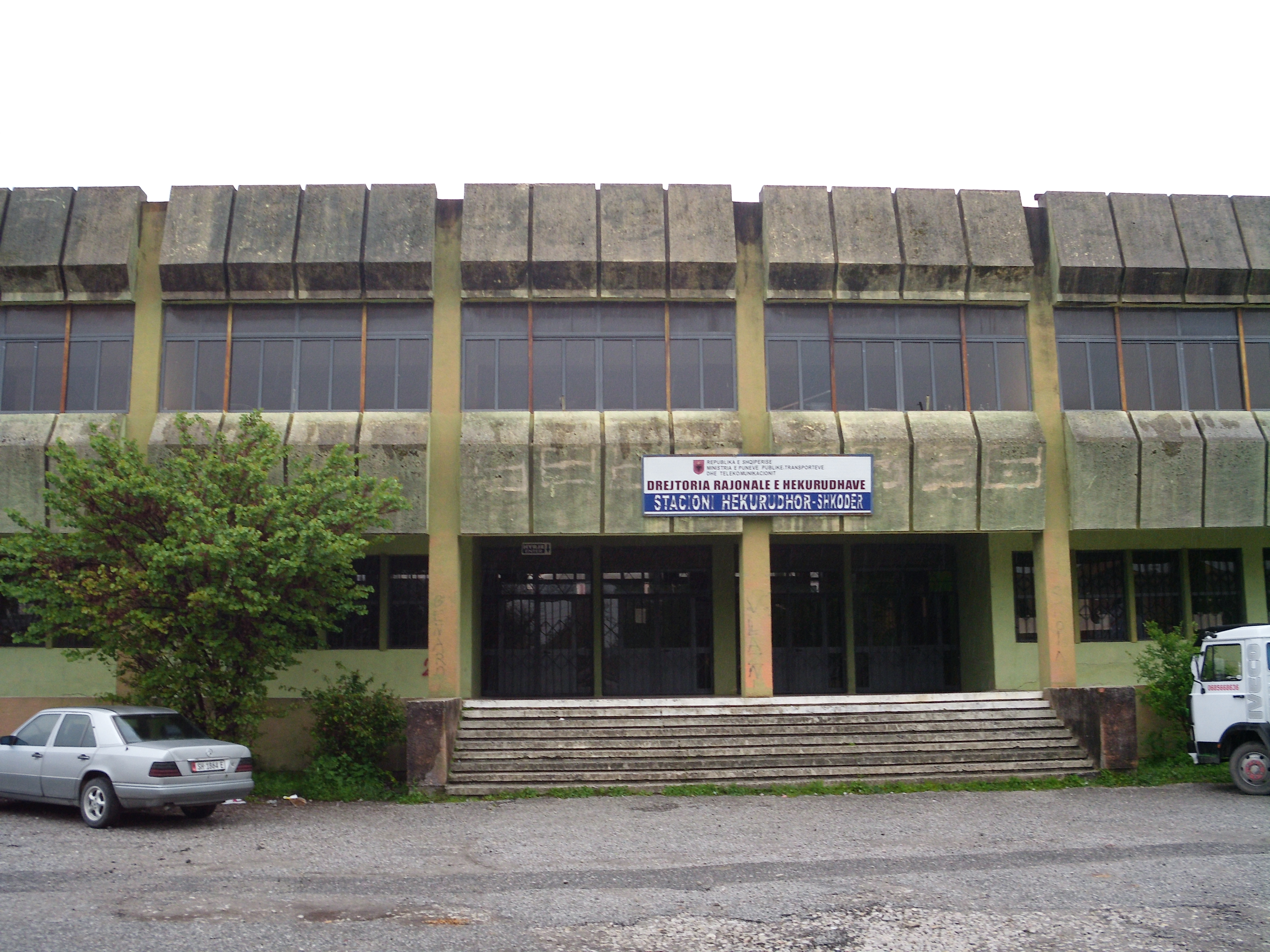 The outside (street view) of a train station in Shkodër, Albania.